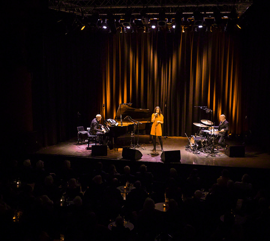 Tord Gustavsen performs at Cosmopolite Scene in Oslo during Vinterjazz 2016. Simin Tander on vocal and Jarle Vespestad on drums.